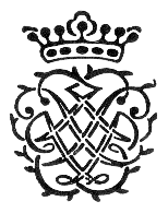 Siegel of Johann Sebastian Bach, designed by himself, also at the "Bachpokal" in Bachhaus Eisenach. Bach got this cup 1735/36 from an unknown person.